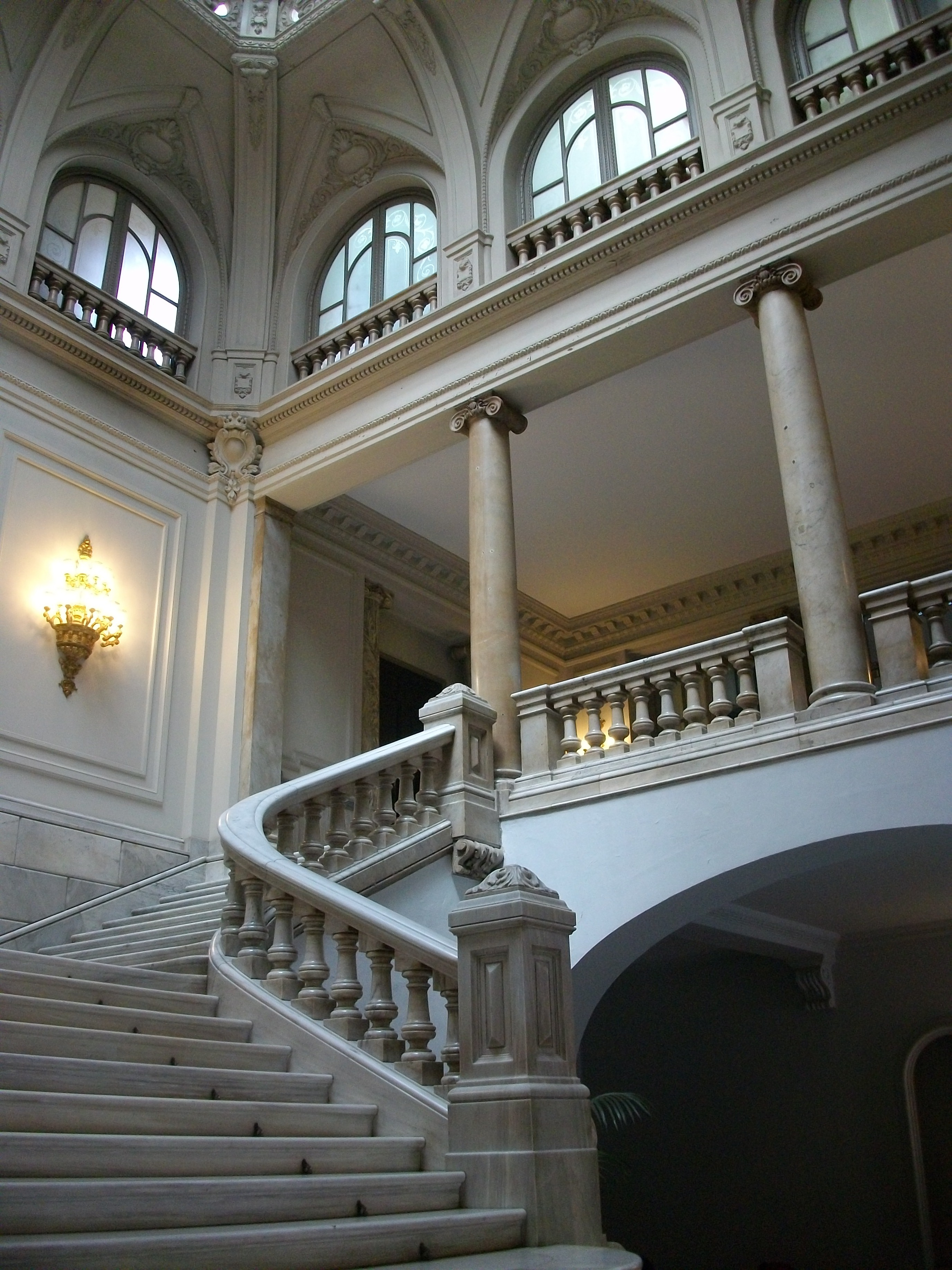 Satirway of the València City Hall.